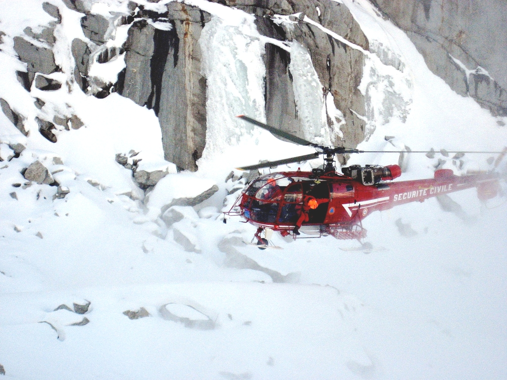 Mont-Blanc downhill @ February 2007